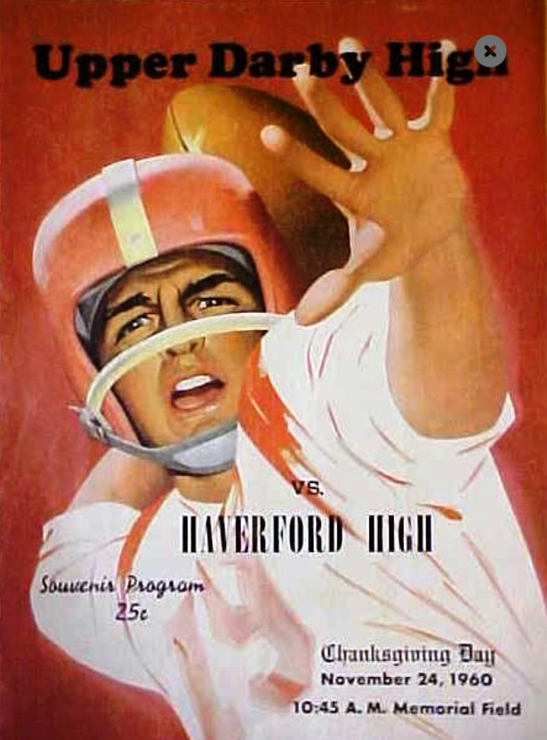 haverford upper darby program